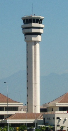 Air Traffic Control Tower Juanda International Airport, Surabaya